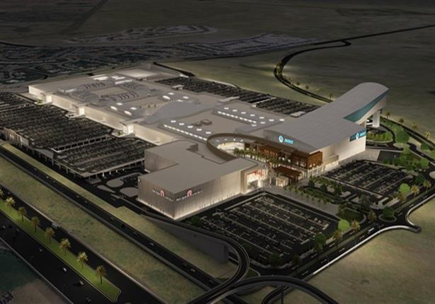 Mall of Egypt